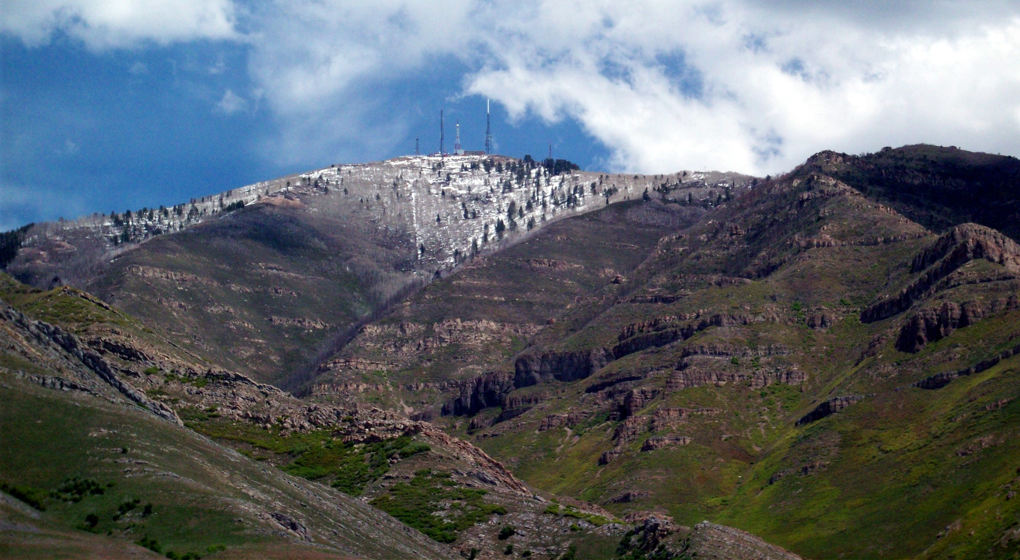 Farnsworth Peak-(9040 ft-north range), located west of Salt Lake City, Utah, as seen here in May of 2008. This image was taken from the west face, near Stansbury Park, Utah. The highpoint of the Oquirrh Mountains is Flat Top Mountain, 10620 ft, southern part of range.